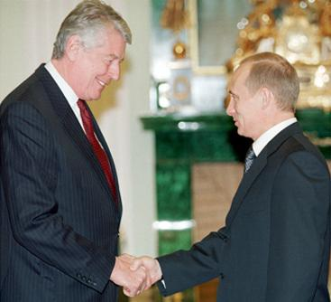 THE KREMLIN, MOSCOW. President Putin meeting with Prime Minister Wim Kok of the Netherlands.